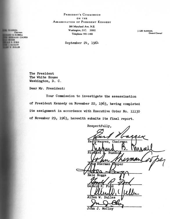 Cover letter of the Warren commission Scanned from 1964 printing of the Warren Commission report.